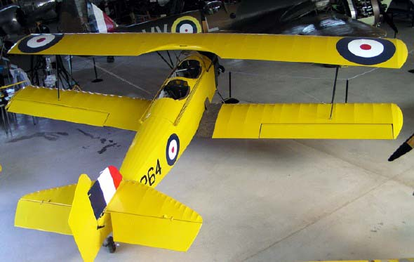 Fleet Fawn Mk I on display in a Canadian museum.